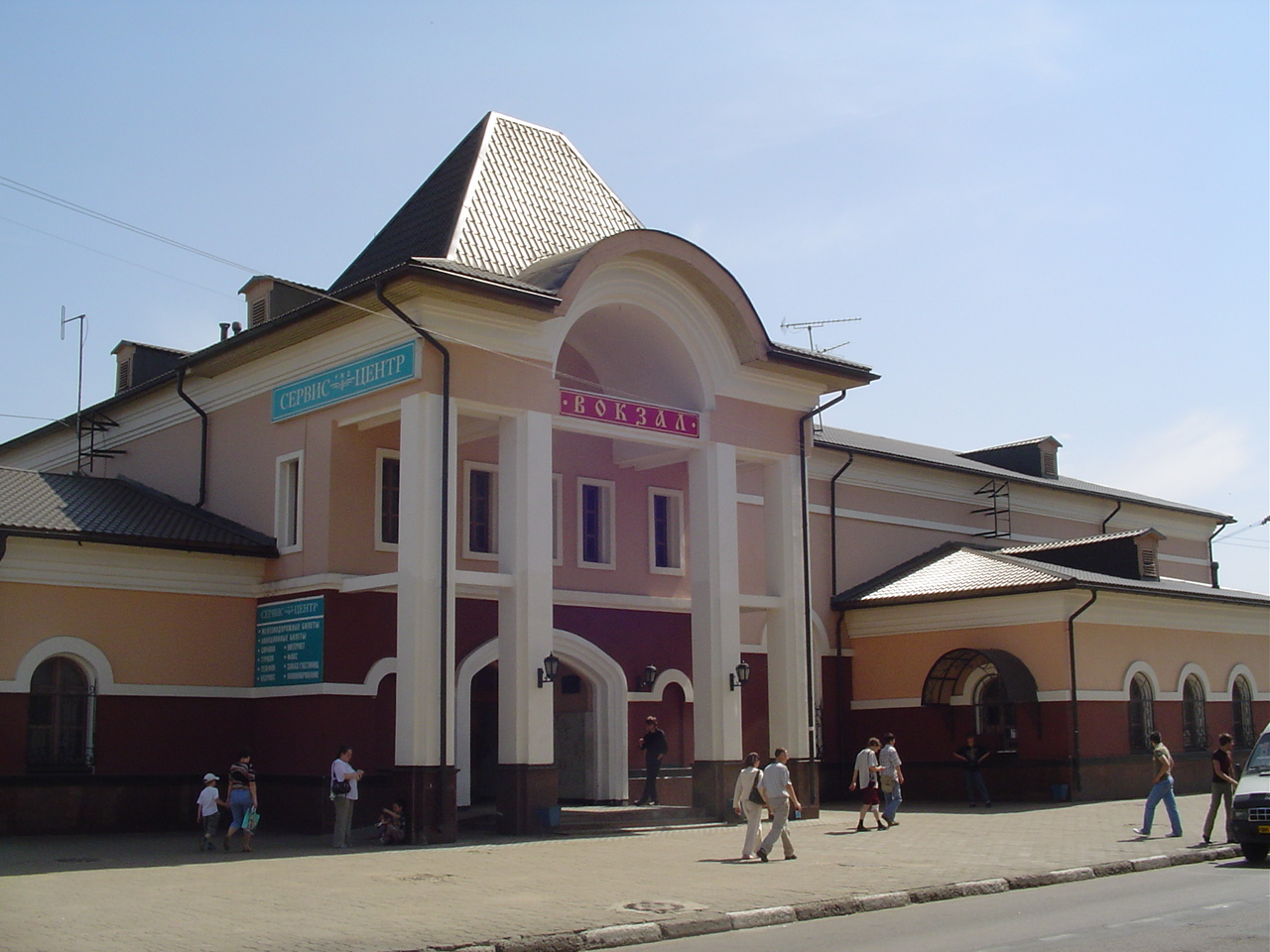 Sergiev Posad train station, Moscow Oblast